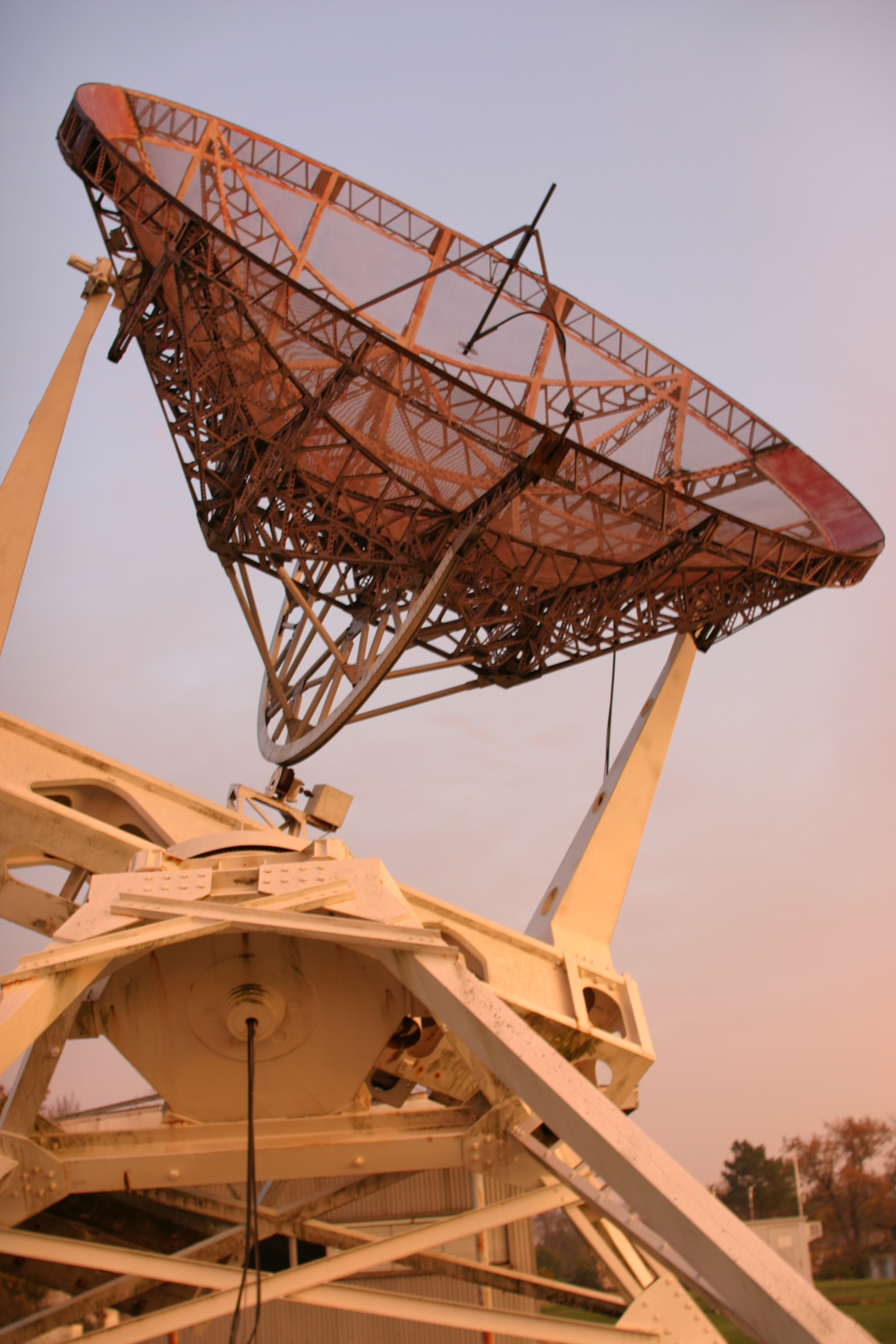 Würzburg radar converted to a radioteslecope after the war, at the Bordeaux observatory. Copyright © 2006 Med